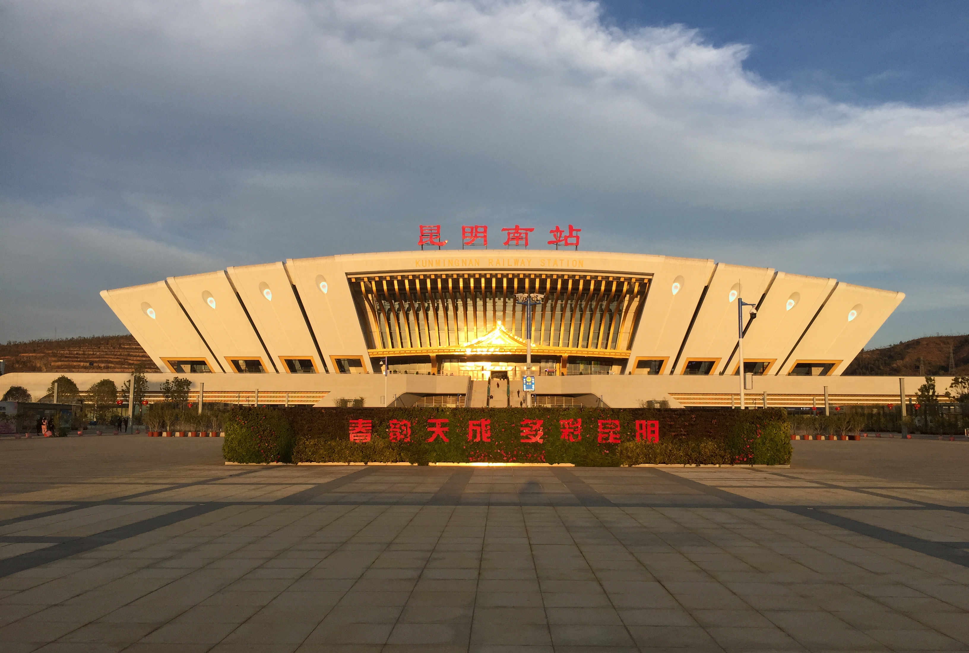 The west square doesn't seem to handle much traffic at the time of photograph.